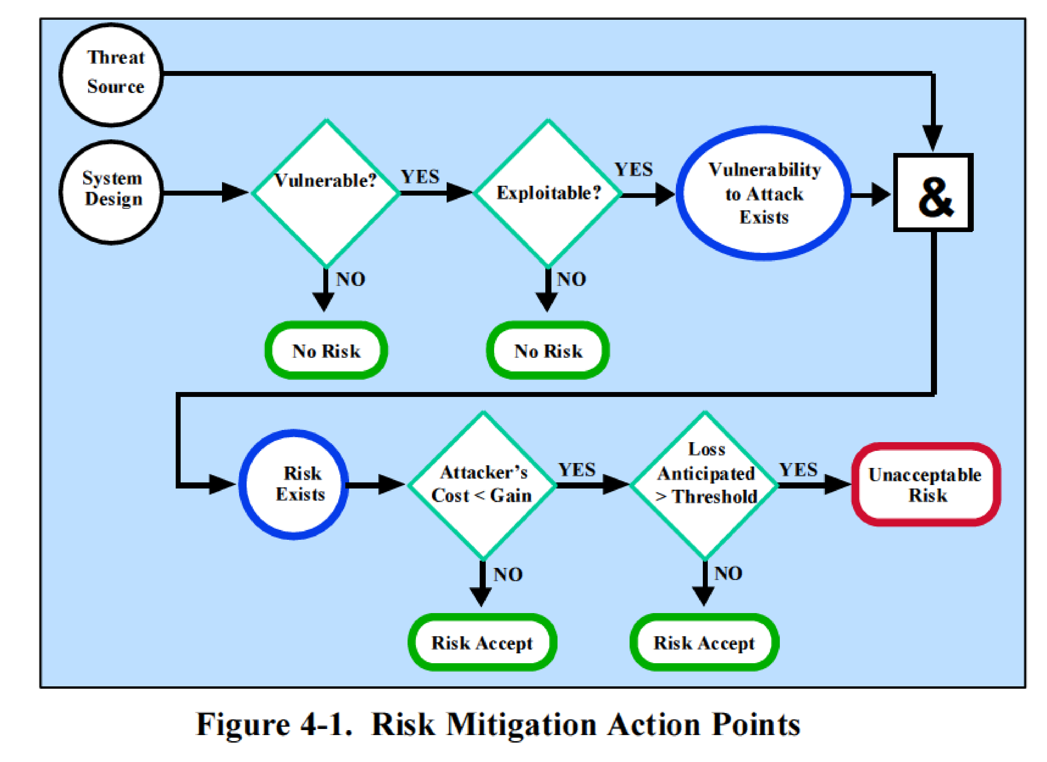 Risk mitigation action points